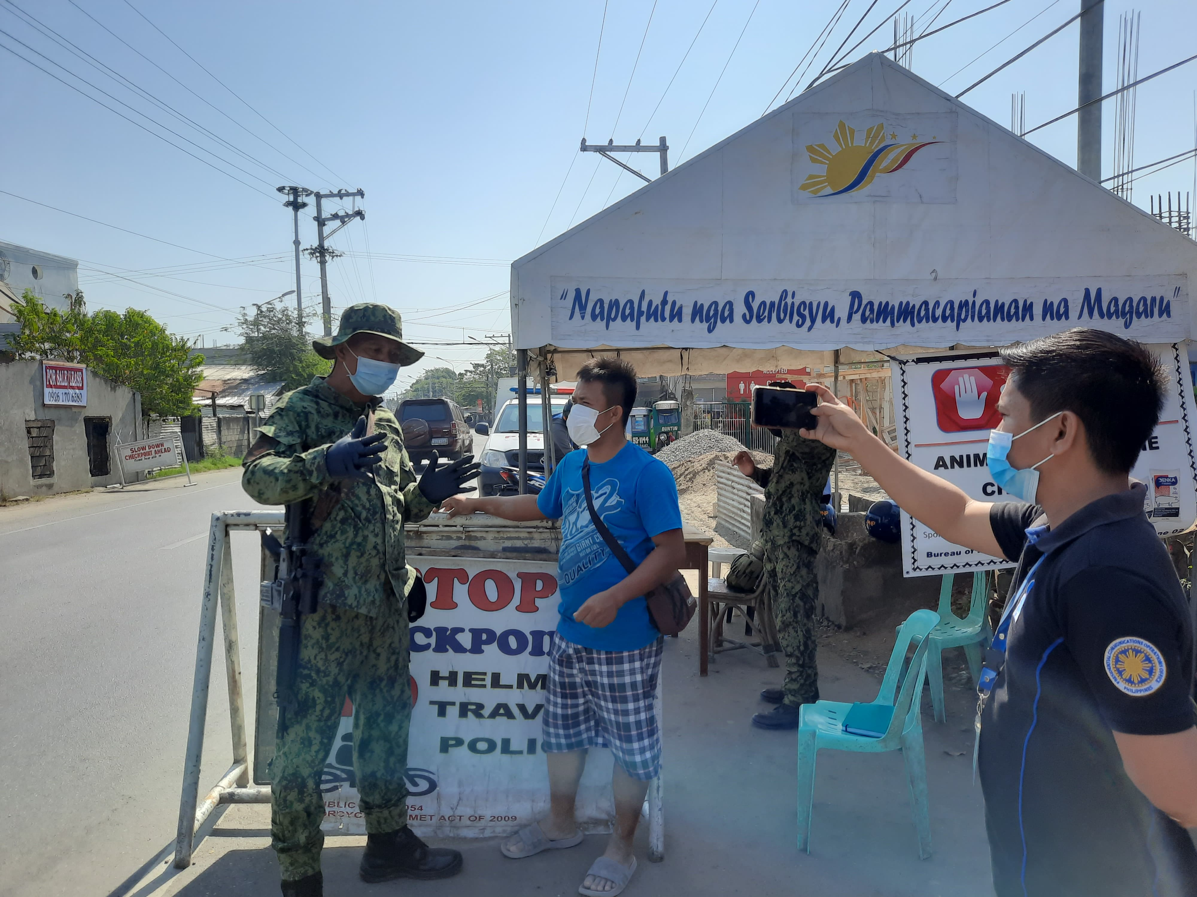 A police officer explains the reason for the implementation of a community quarantine to a resident at a checkpoint in Tuguegarao City.(by PIA)